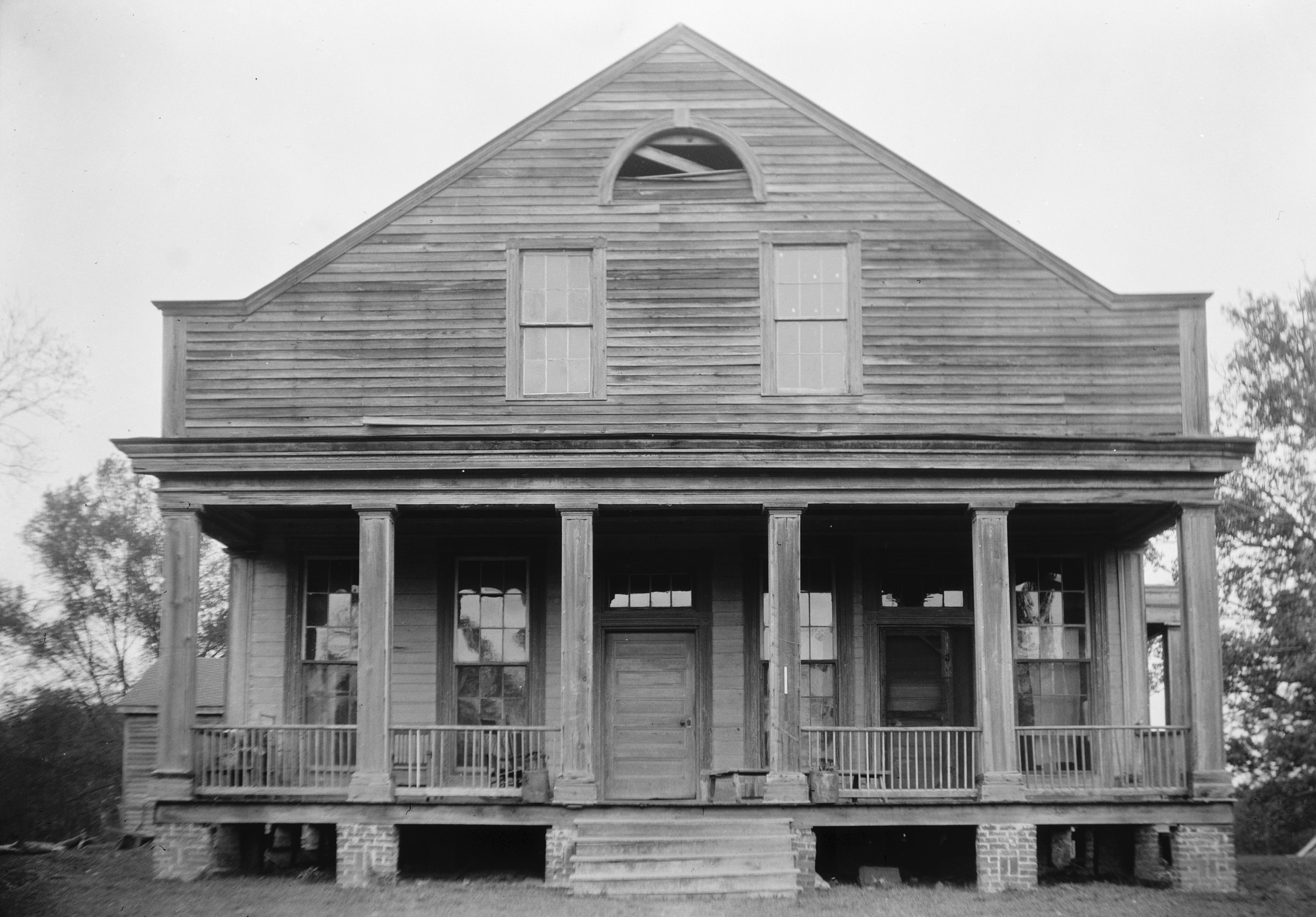 Front of the John B. Peyton House, located on Clinton Road north of Raymond in Hinds County, Mississippi, United States. Built in 1831, it is listed on the National Register of Historic Places.